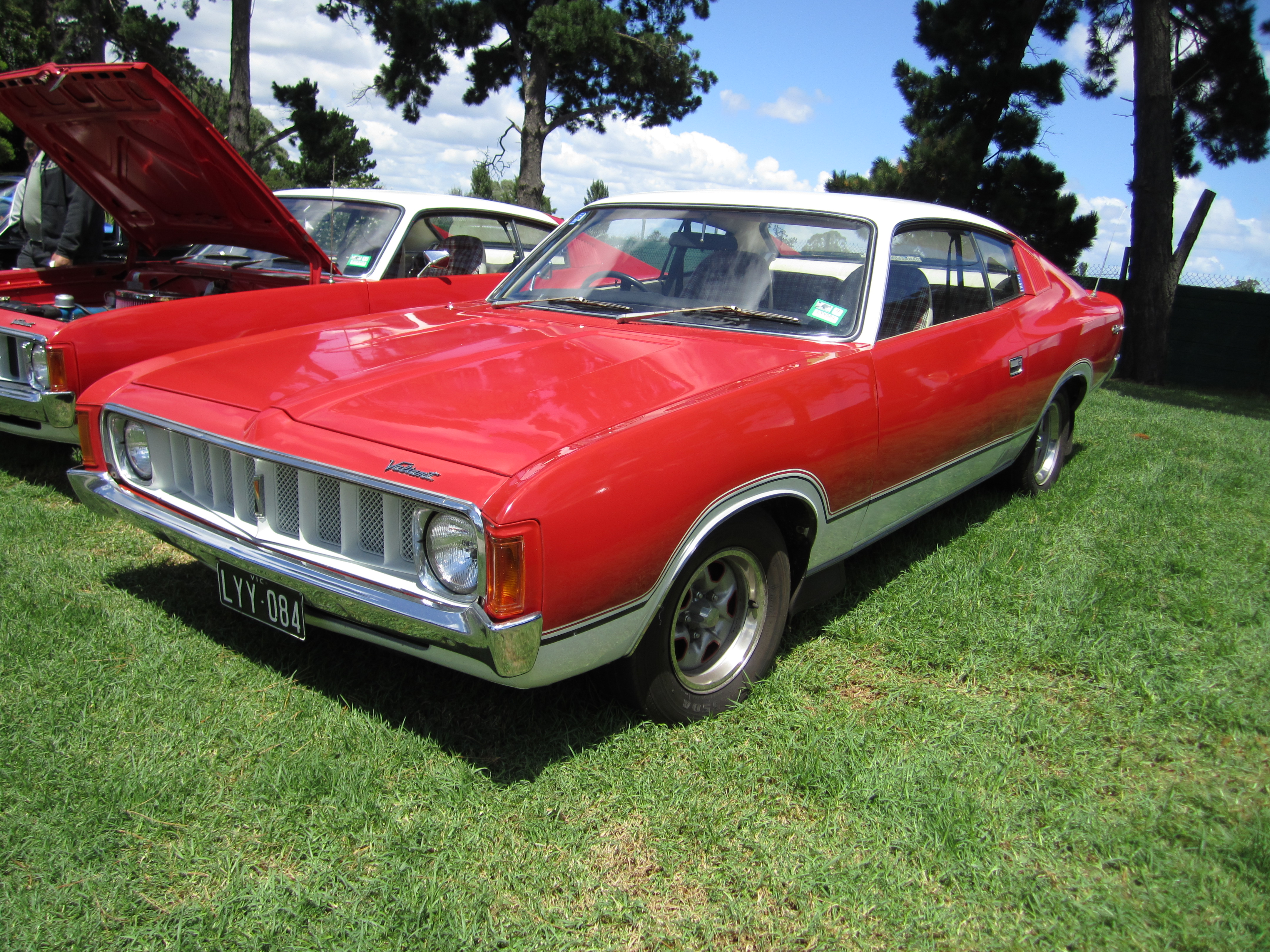 Vintage Red Built in August 1963, 55 made Engine; 265 Hemi 6, 4 speed